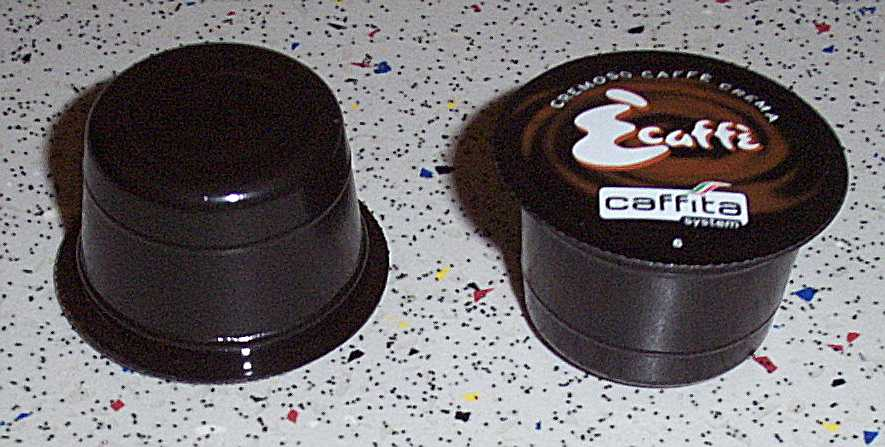 Image of capsules of the Caffita/Caffitaly espresso-making system. Taken by ProhibitOnions, 2006.